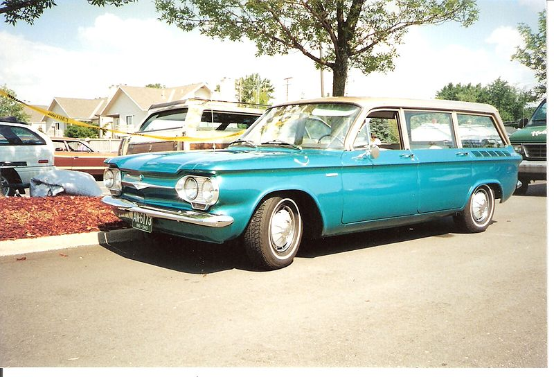 1961 Chevrolet Corvair Lakewood 500 station wagon I photographed in Dearborn, Michigan in June 2001